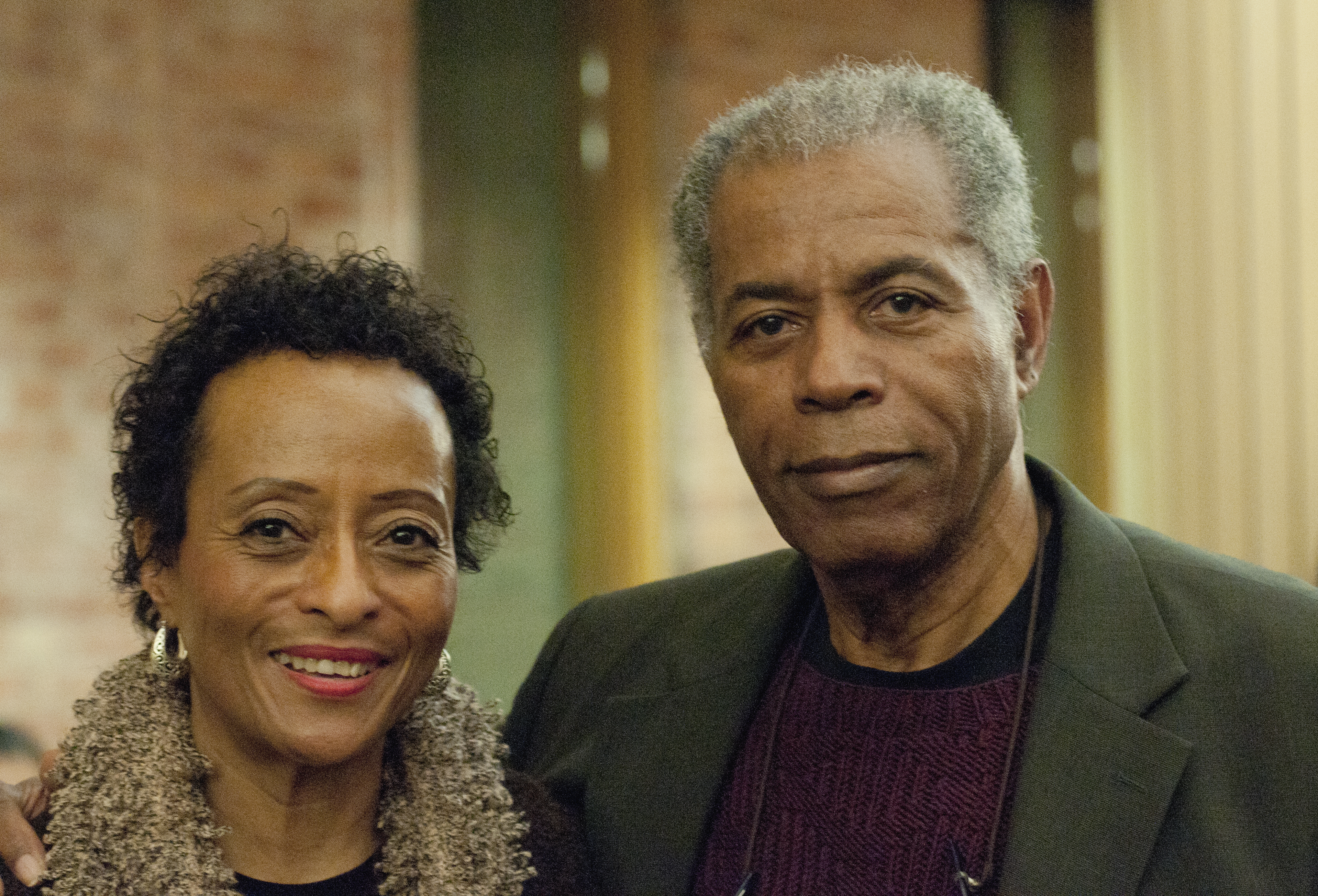 Photo by University of Michigan/Kevin Merrill Learn more about Environmental Justice at